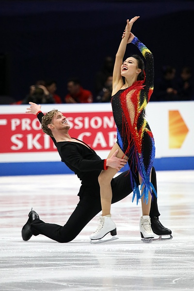 Madison Chock and Evan Bates at the 2018 World Championships